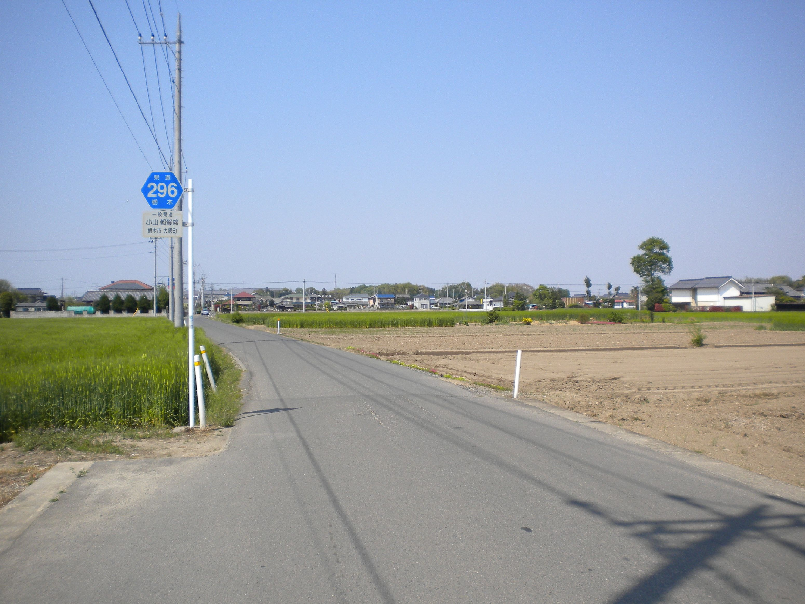 The Tochigi Prefectural Road Route 296 in Otsukamachi, Tochigi City